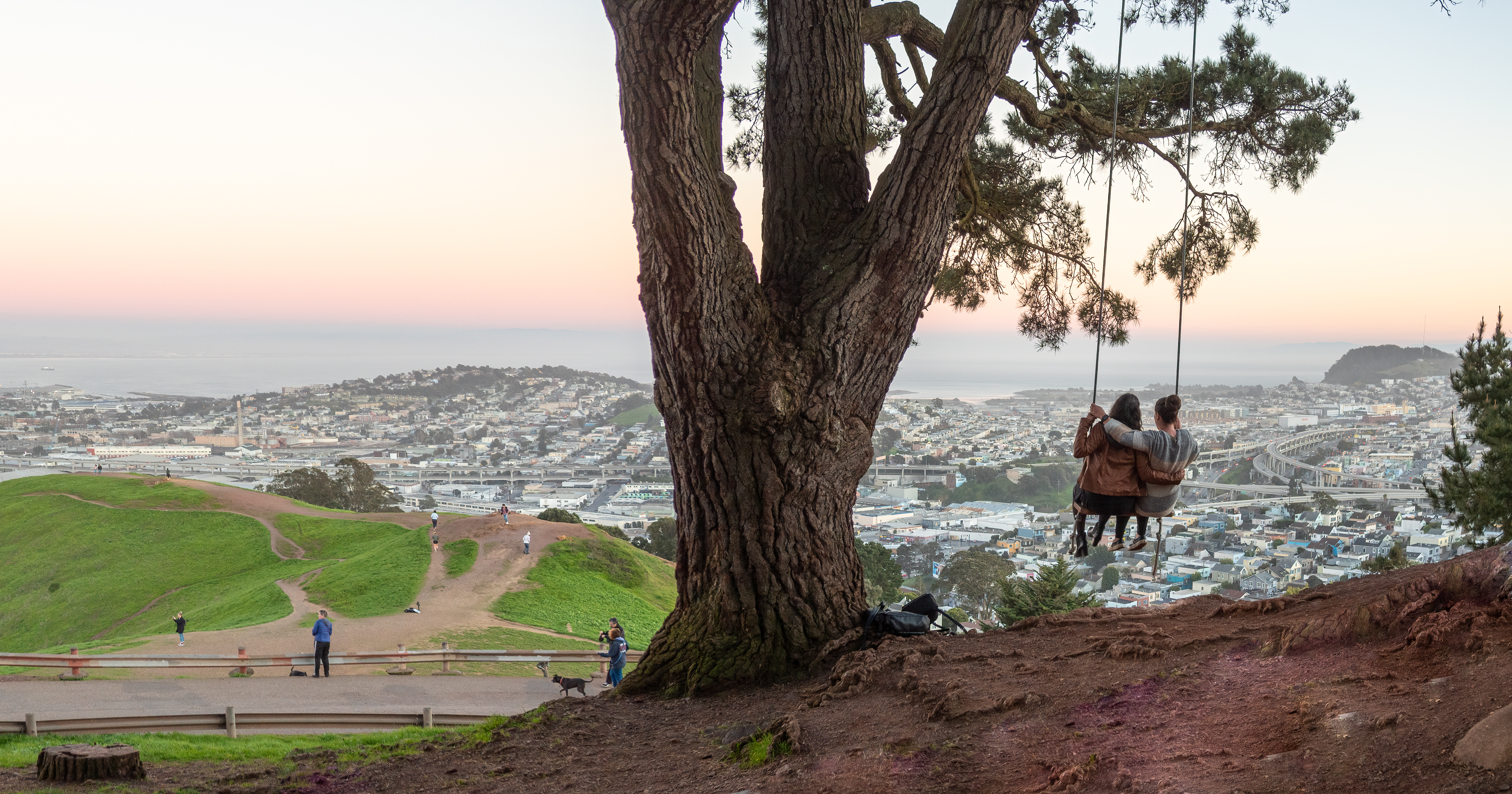 Swing in the trees in Bernal Heights Park, San Francisco, California